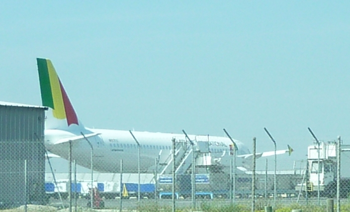 Airbus A320 after finish of the airline Air Guinee International, which steadily wear their colours. The aircraft is standing at Montpellier Airport in France.